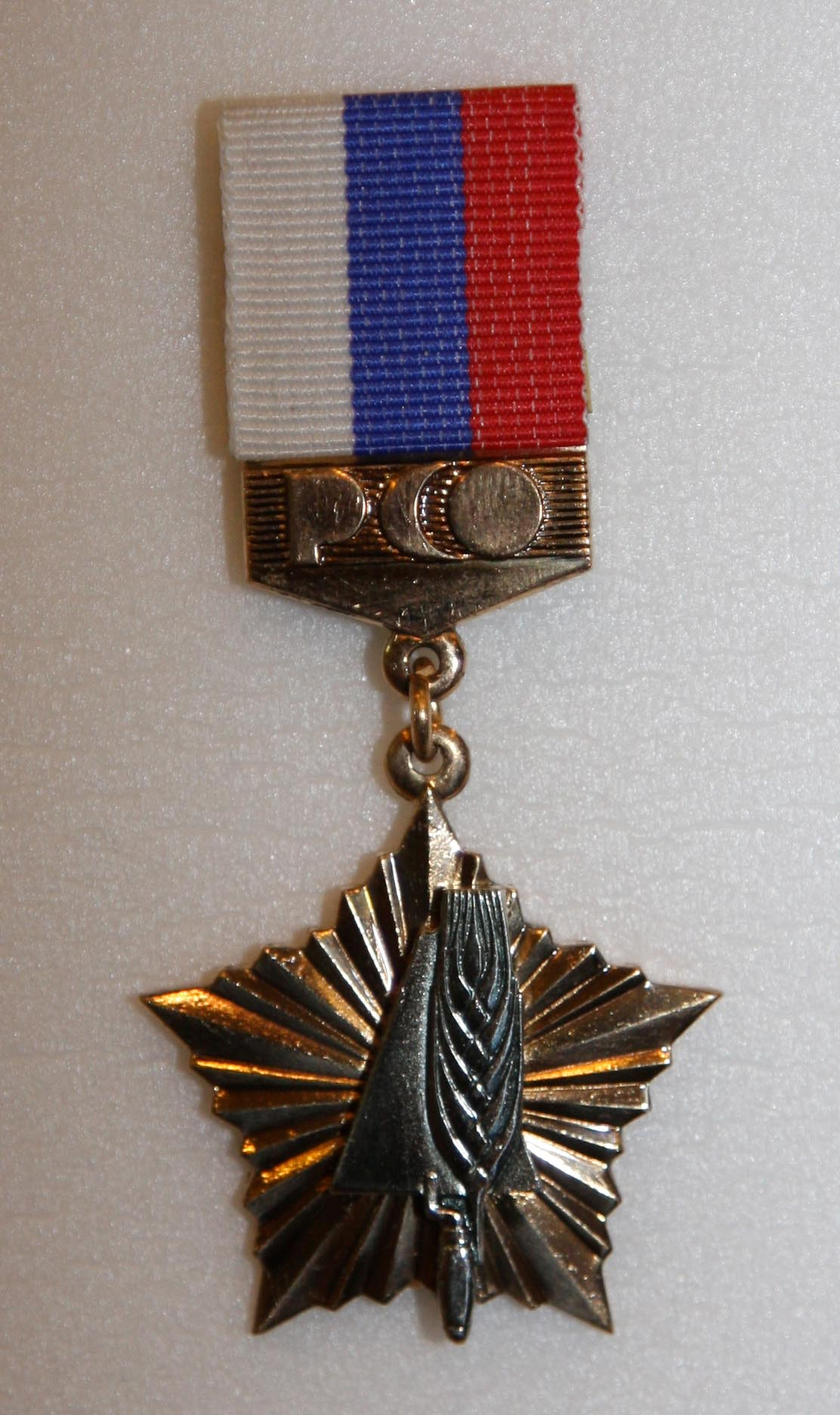 Badge: Sign of honour for active work in the Russian student teams